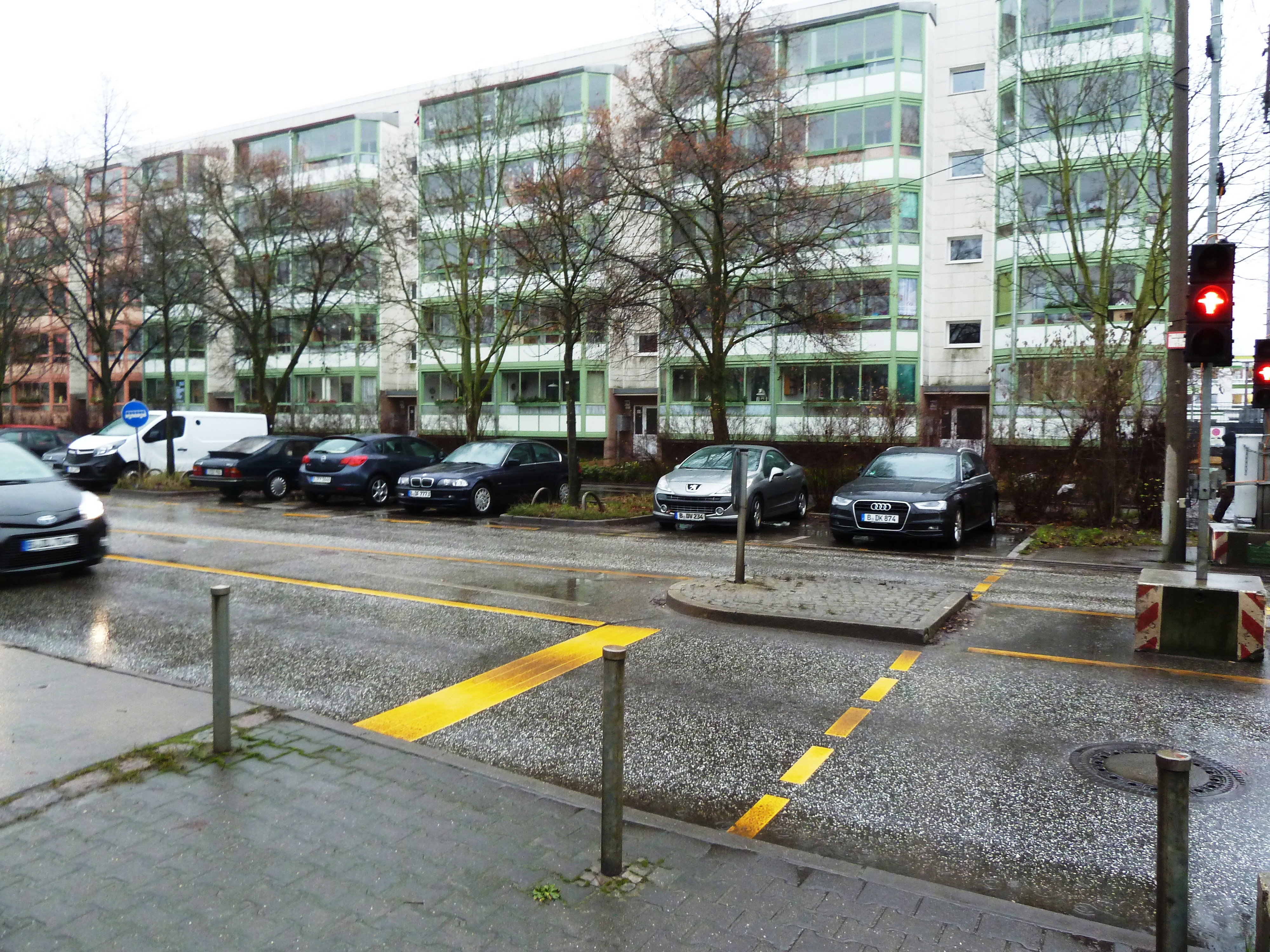 Südostallee 218, Johannisthal, Treptow, East Berlin (looking at building from right, second door from the right). Last residence of Berlin Wall victim Chris Gueffroy.